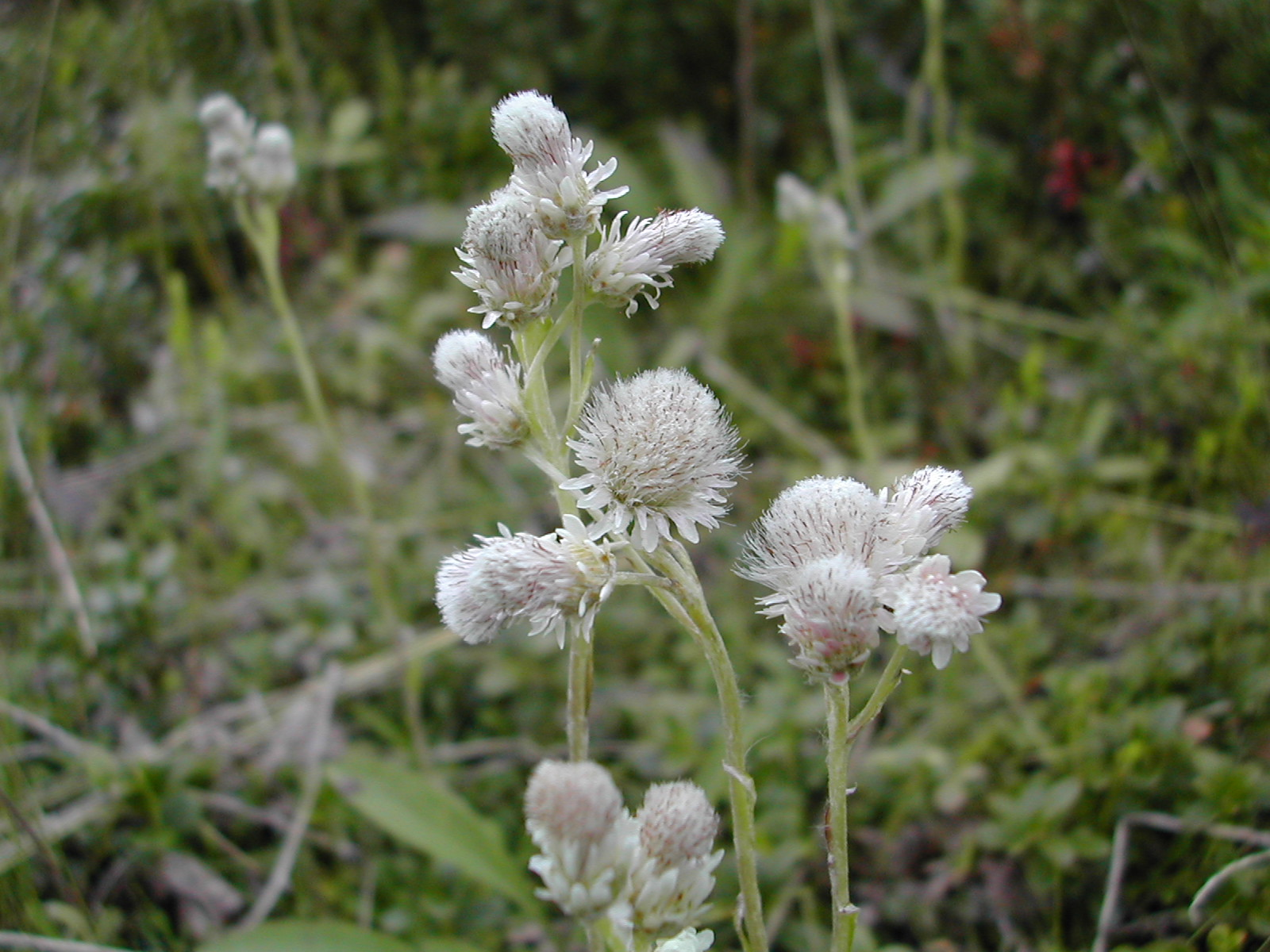 Antennaria dioica in Abisko, Sweden. Female flowers.